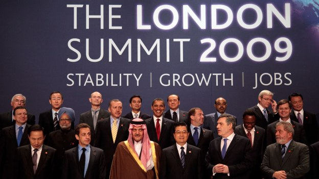 G-20 Summit in London, 4/2/09